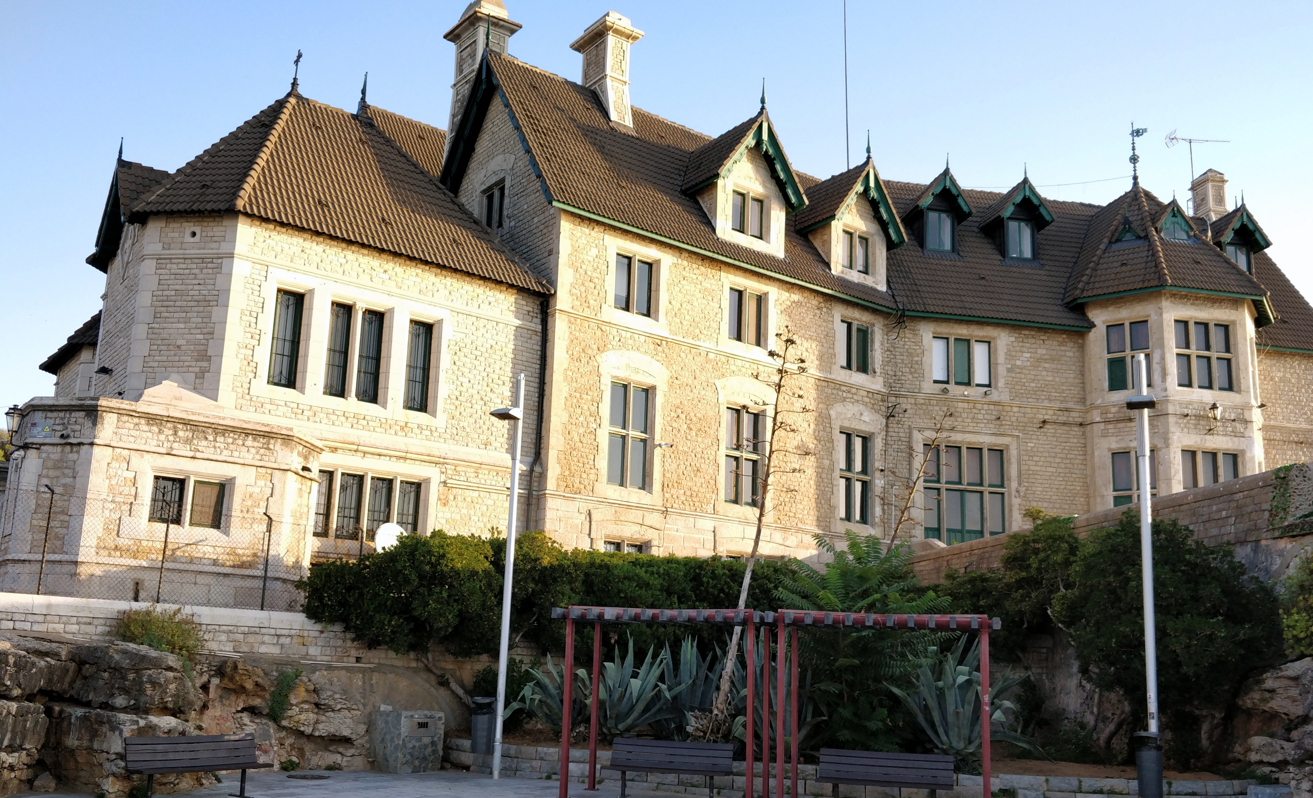 View of the Palmela Palace in Cascais. The building was constructed in 1874 for the Duke and Duchess of Palmela and is considered a leading example of what is known as the Cascais "summer architecture".